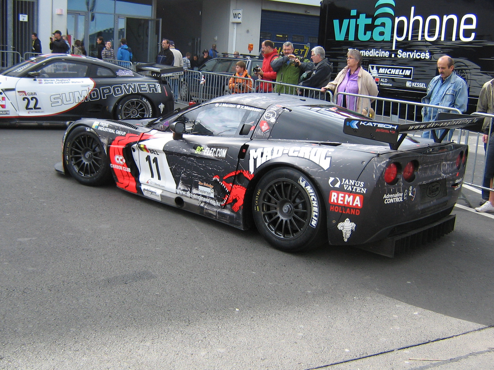 The Corvette Nr.11 from the FIA GT 1 World Championship